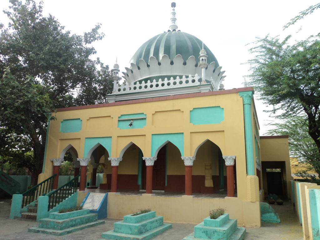 Shrine of a Sufi.